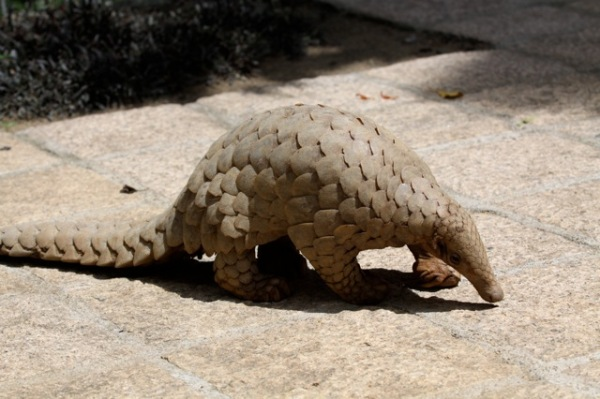 Indian Pangolin (Manis crassicaudata) in Kandy, Sri Lanka